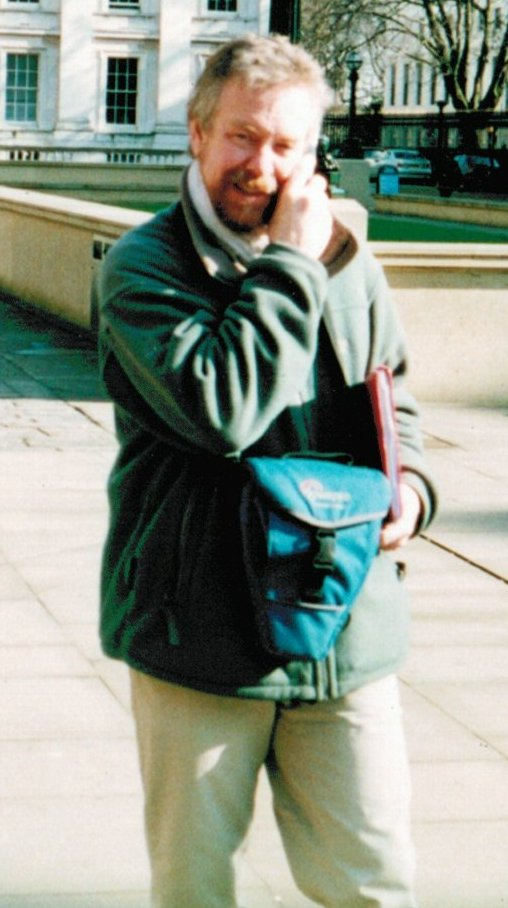 Archaeologist and tv presenter Julian Richards at the British Museum in 2002